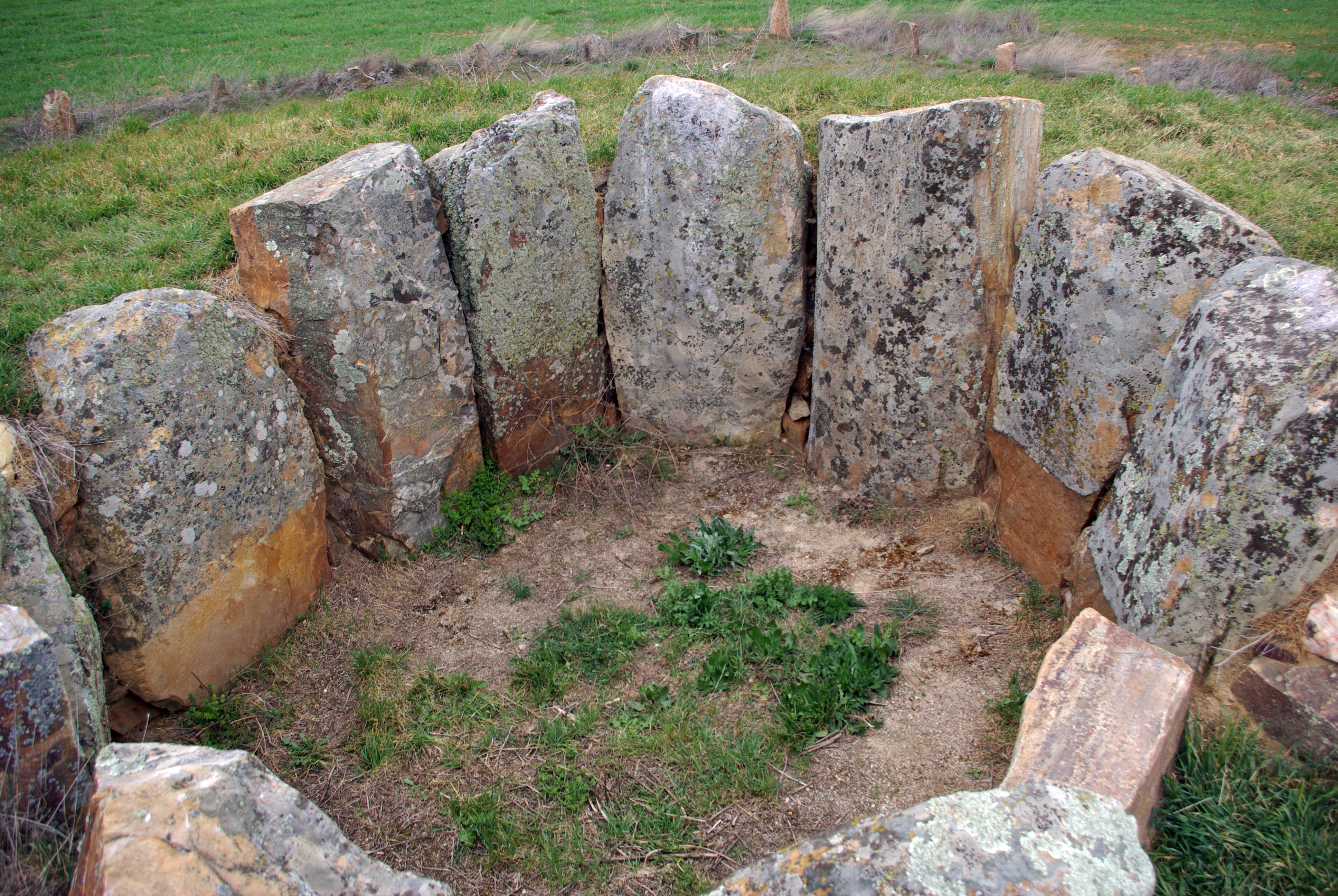 Dolmen of San Adrián, near Benavente, Zamora, (Spain)